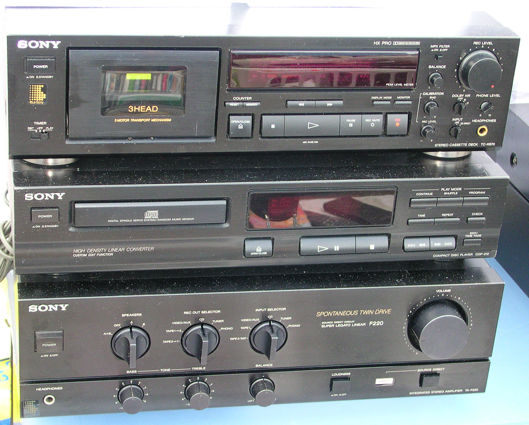 Sony TC-K670 tape deck, Sony CDP-212 CD player and Sony TA-F220 amplifier